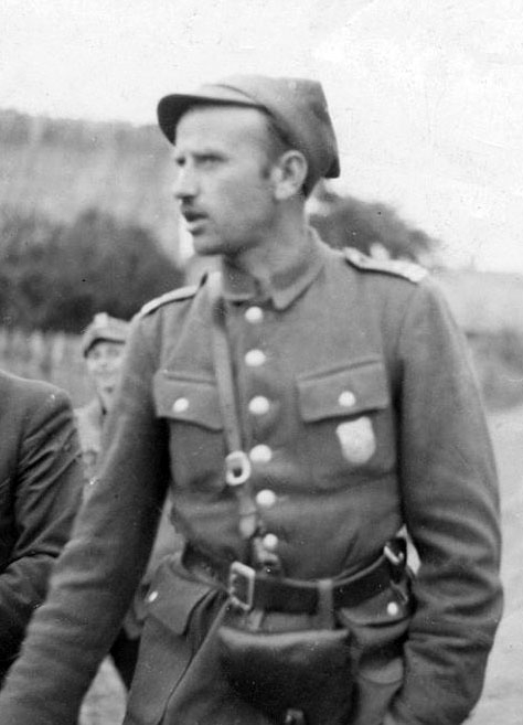 Zygmunt Szendzielarz (also known as “Łupaszka”; March 12, 1910 – February 8, 1951) was a Polish commander of the 5th Vilnian Home Army Brigade. Polish soldier, officer of Polish Army in rank of Mayor, partisan during WW II , commander of anti- Soviet unit during anti-Soviet guerilla warfare after 1945, arrested, executed. On 2007 Polish president Lech Kaczyński posthumously awarded Szendzielarz with the order of Polonia Restituta